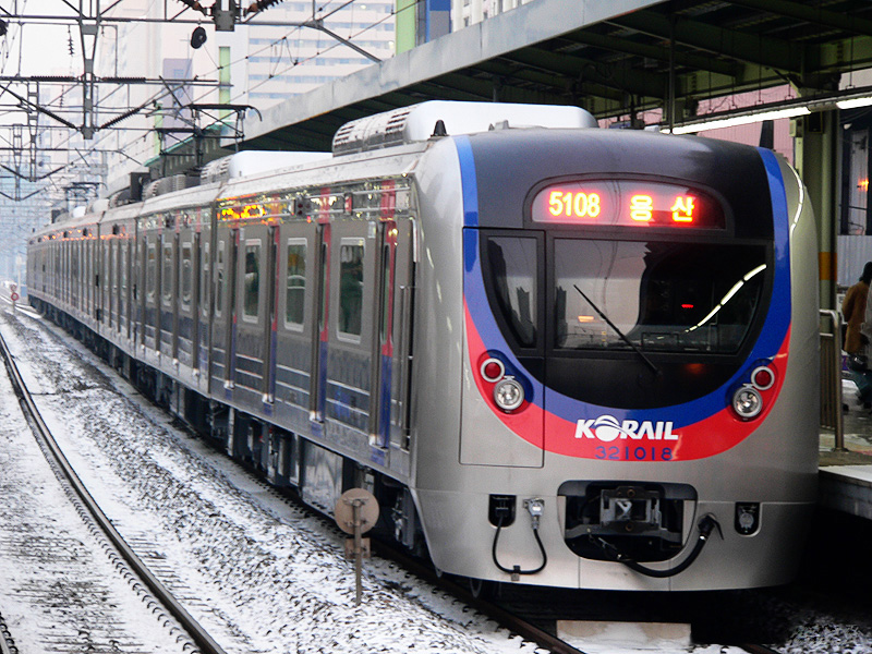 KORAIL 321000series EMU